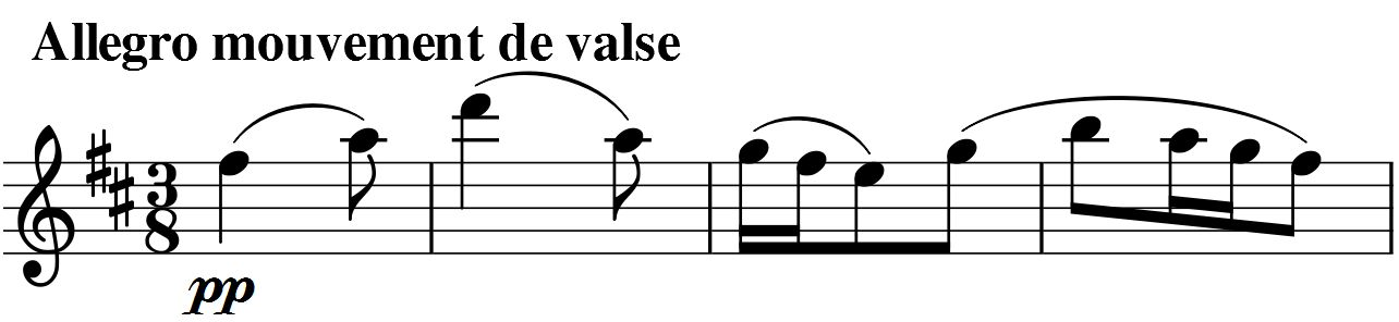 Scores of: Hector Berlioz, Dance of the Sylphs, Violin Part, Beginning